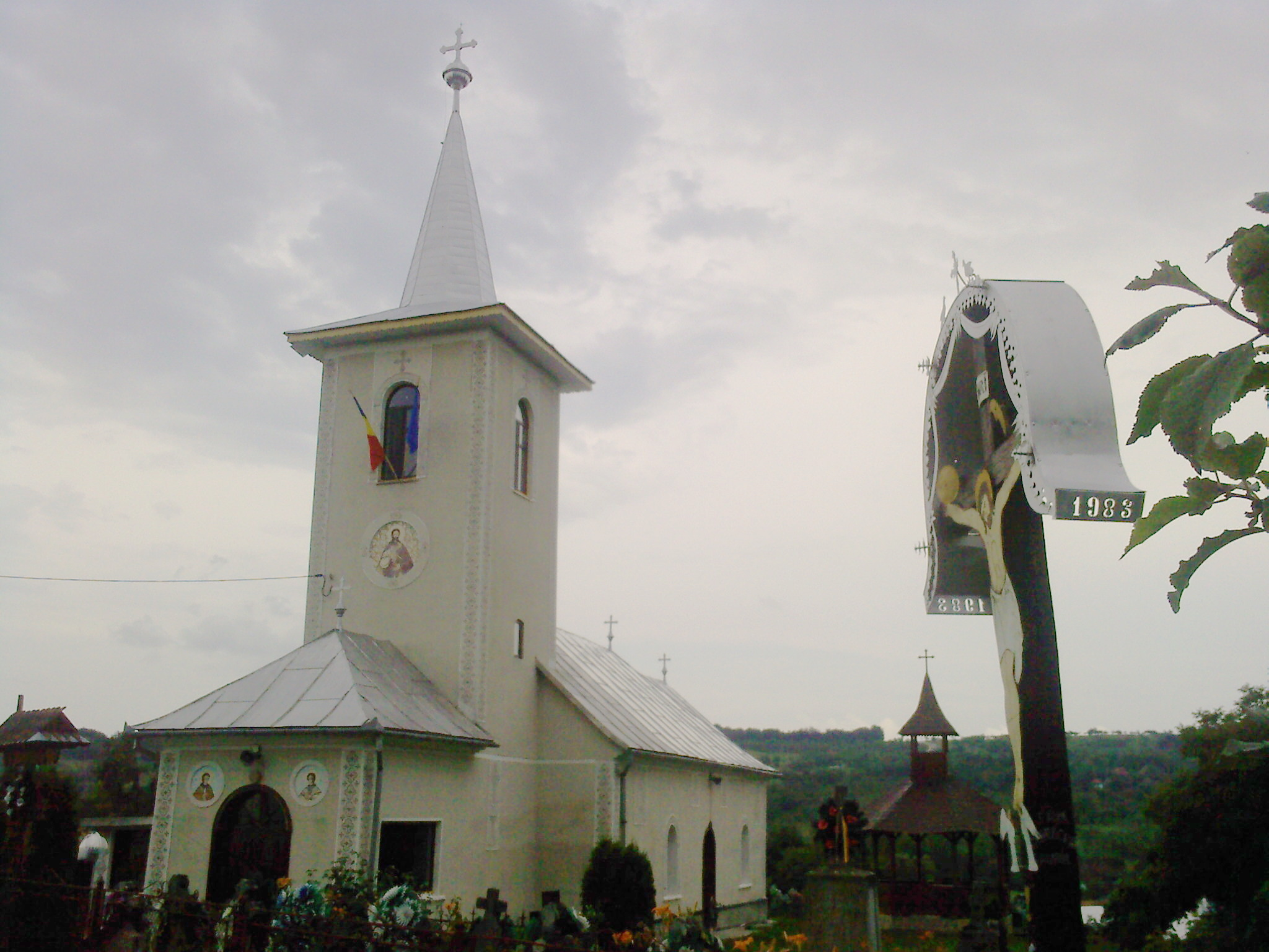 Orthodox Church in Meseşenii de Sus, Sălaj County, RomaniaRomână: Biserica ortodoxă din Meseşenii de Sus, judeţul Sălaj, România